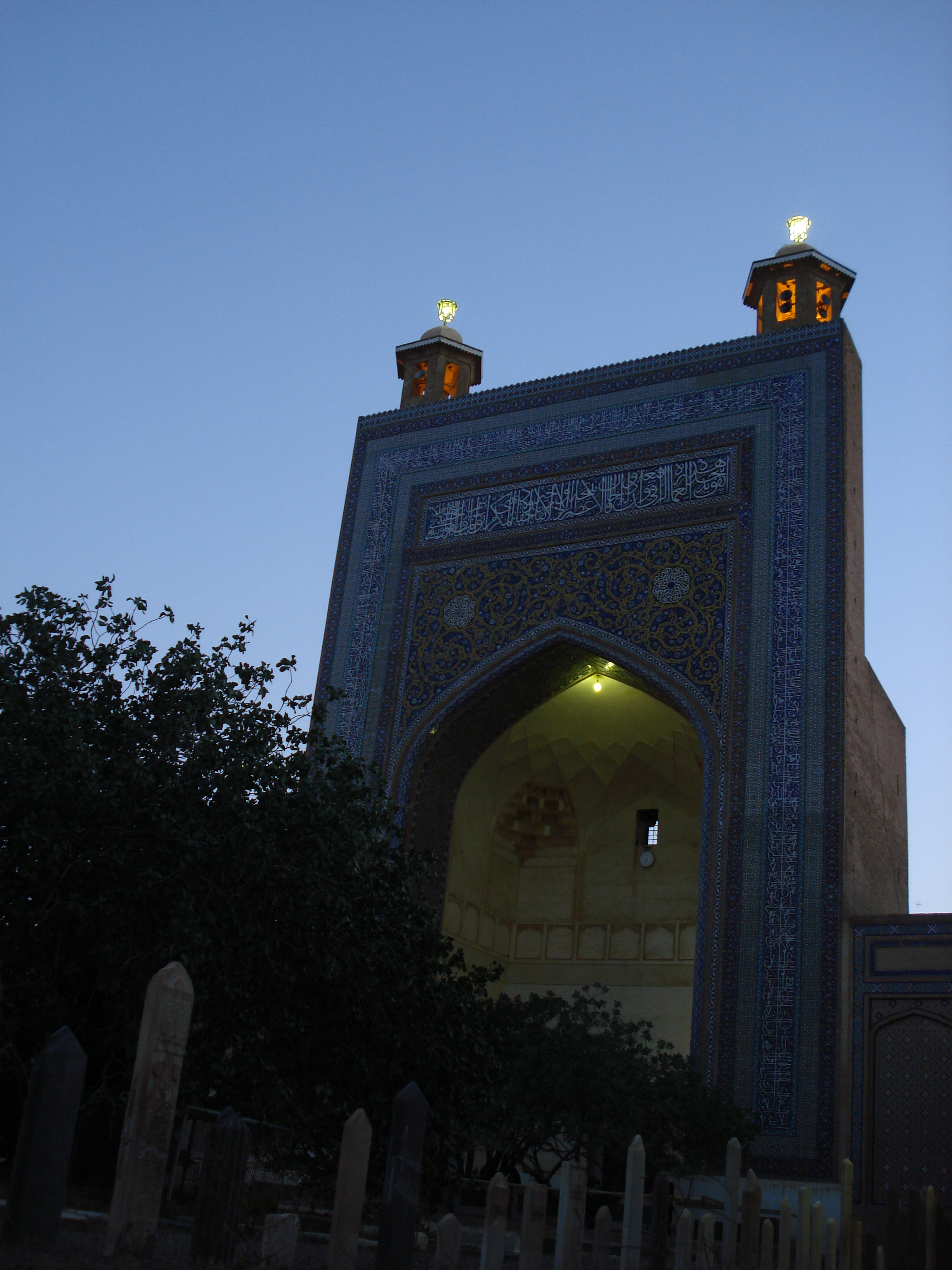 the tomb and mazar of Sheikh Ahmad Jami in Torbat Jam, iran